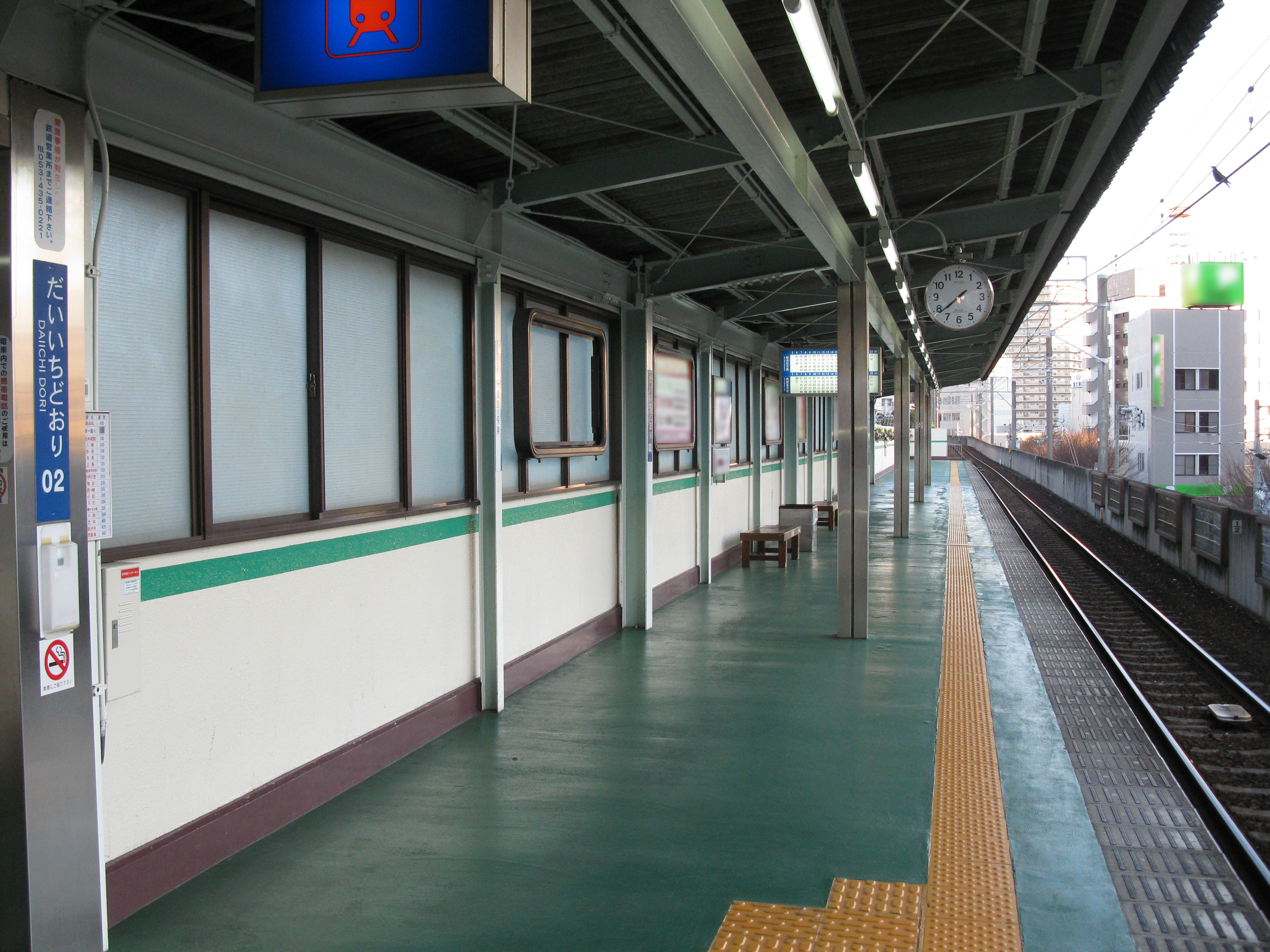 Dai-Ichi-dōri Station platform (Enshū Railway Line)